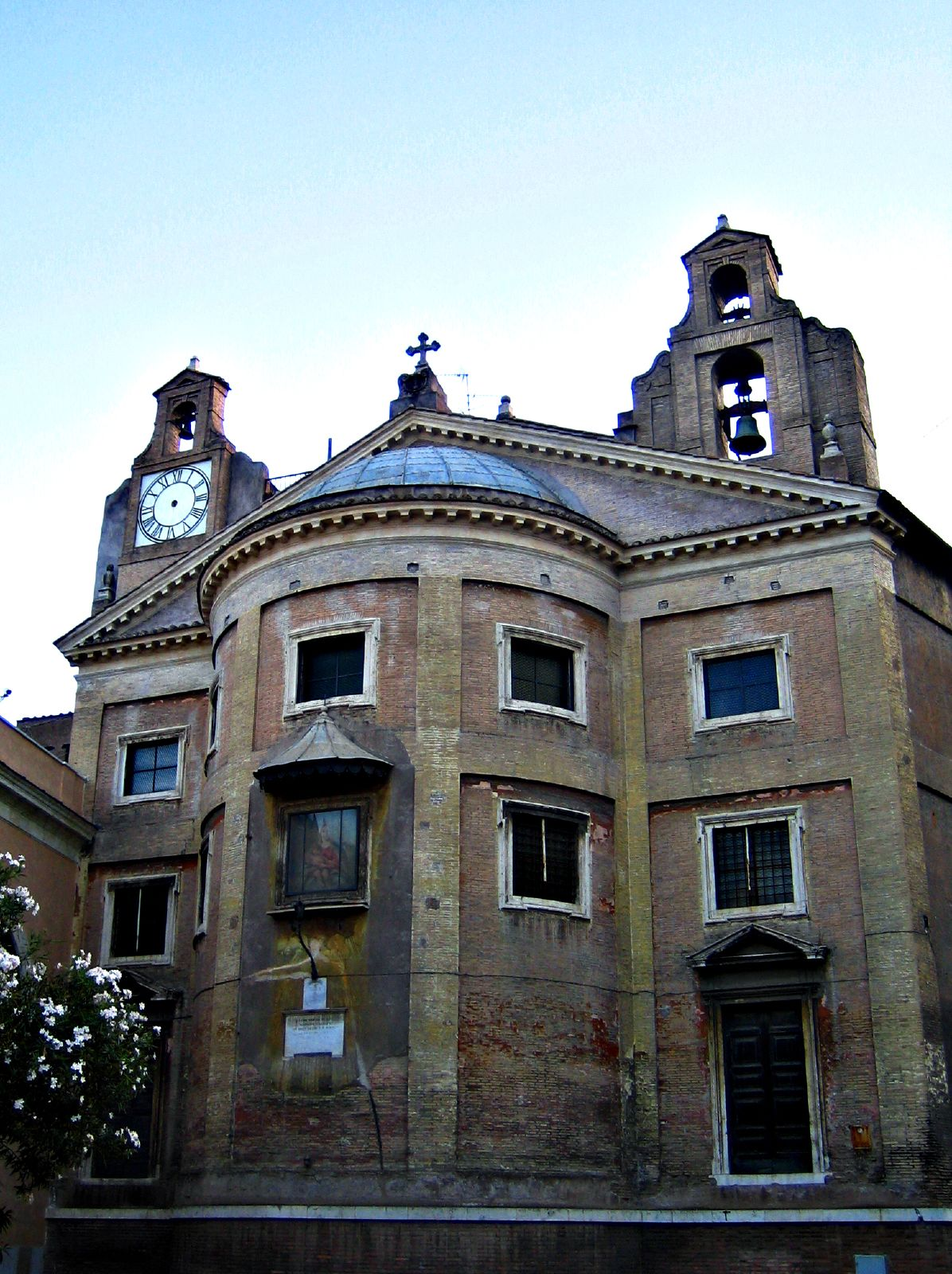 This view reminds me irresistibly of a Catholic high school back in Toronto. I can just imagine a basketball hoop set up behind the apse.